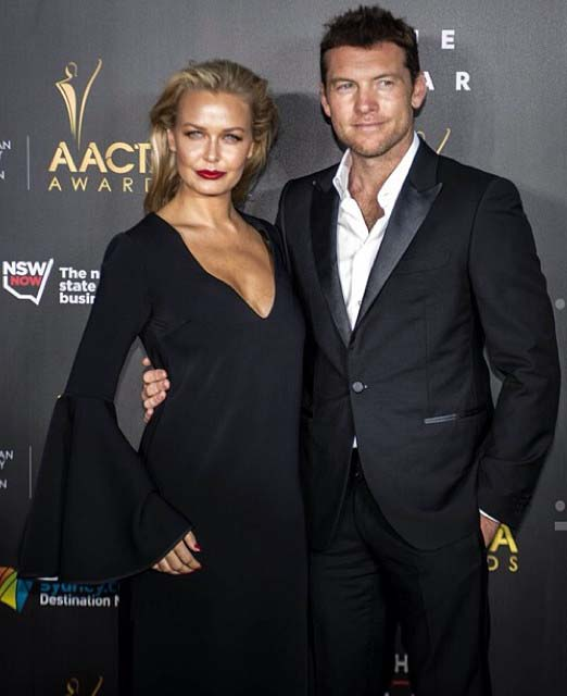 Lara Bingle and Sam Worthington on 2014 AACTAS Awards red carpet